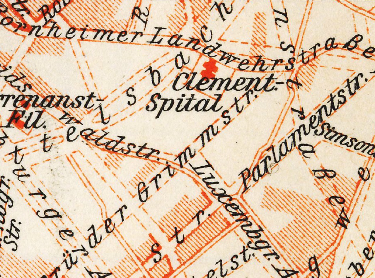 1904: City map (crop) of Frankfurt am Main, Hesse, Germany. The crop focusses on the situation of Clement.-Spital (current: Clementine Kinderhospital) at Bornheimer Landwehrstraße 110.